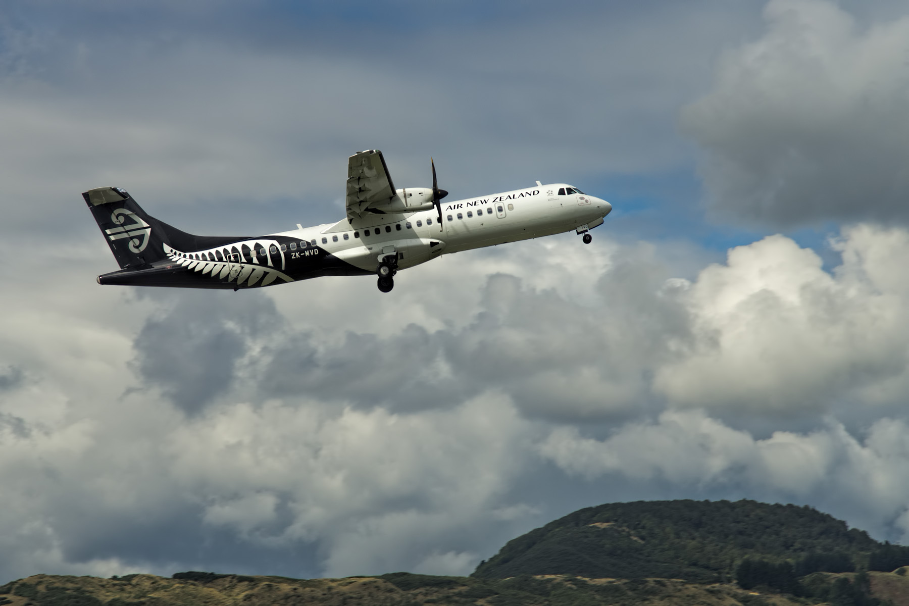 One of the new(ish) ATR 72-600s.